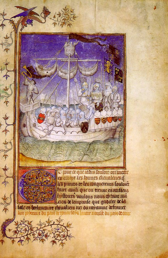 Iluminure of the opening page of the original Le Canarien (1490).